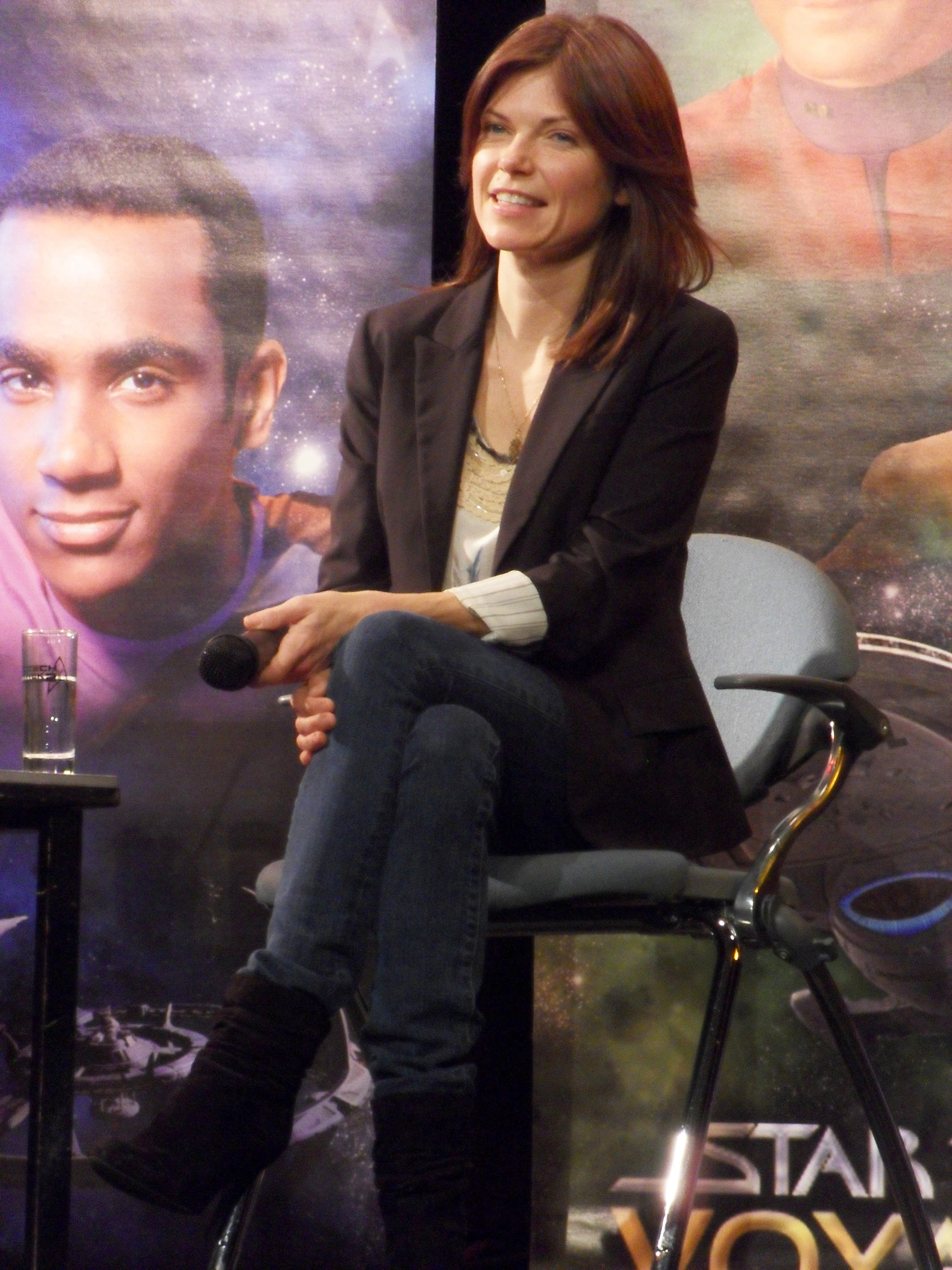 Nicole de Boer, CzechTREK 2013, Kulturní centrum Novodvorská, Prague, Czech Republic Personality rights warningAlthough this work is freely licensed or in the public domain, the person(s) shown may have rights that legally restrict certain re-uses unless those depicted consent to such uses. In these cases, a model release or other evidence of consent could protect you from infringement claims.